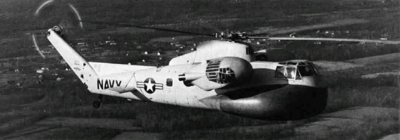 A U.S. Navy Sikorsky HR2S-1W in flight. Two standard HR2S-1s (BuNos 141646/141647) were fitted with an AN/APS-20E radar as airborne early warning aircraft for the U.S. Navy in 1957.